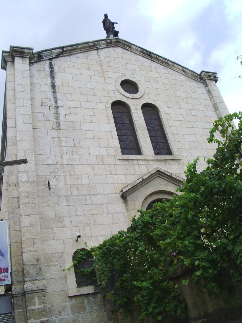 Adana Saint Paul Catholic Church locally known as Bebekli Kilise